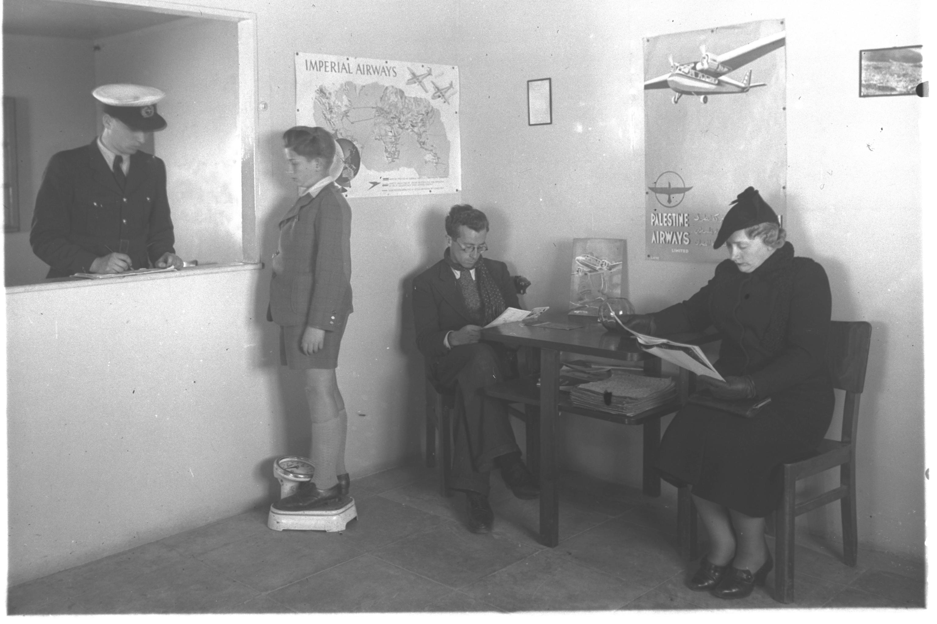 PASSENGER HALL OF THE PALESTINE AIRWAYS LINE AT THE AERODROME SDE DOV IN TEL AVIV. אולם הנוסעים של חברת "נתיבי אויר ארץ ישראל" בנמל התעופה שדה דב בתל אביב.